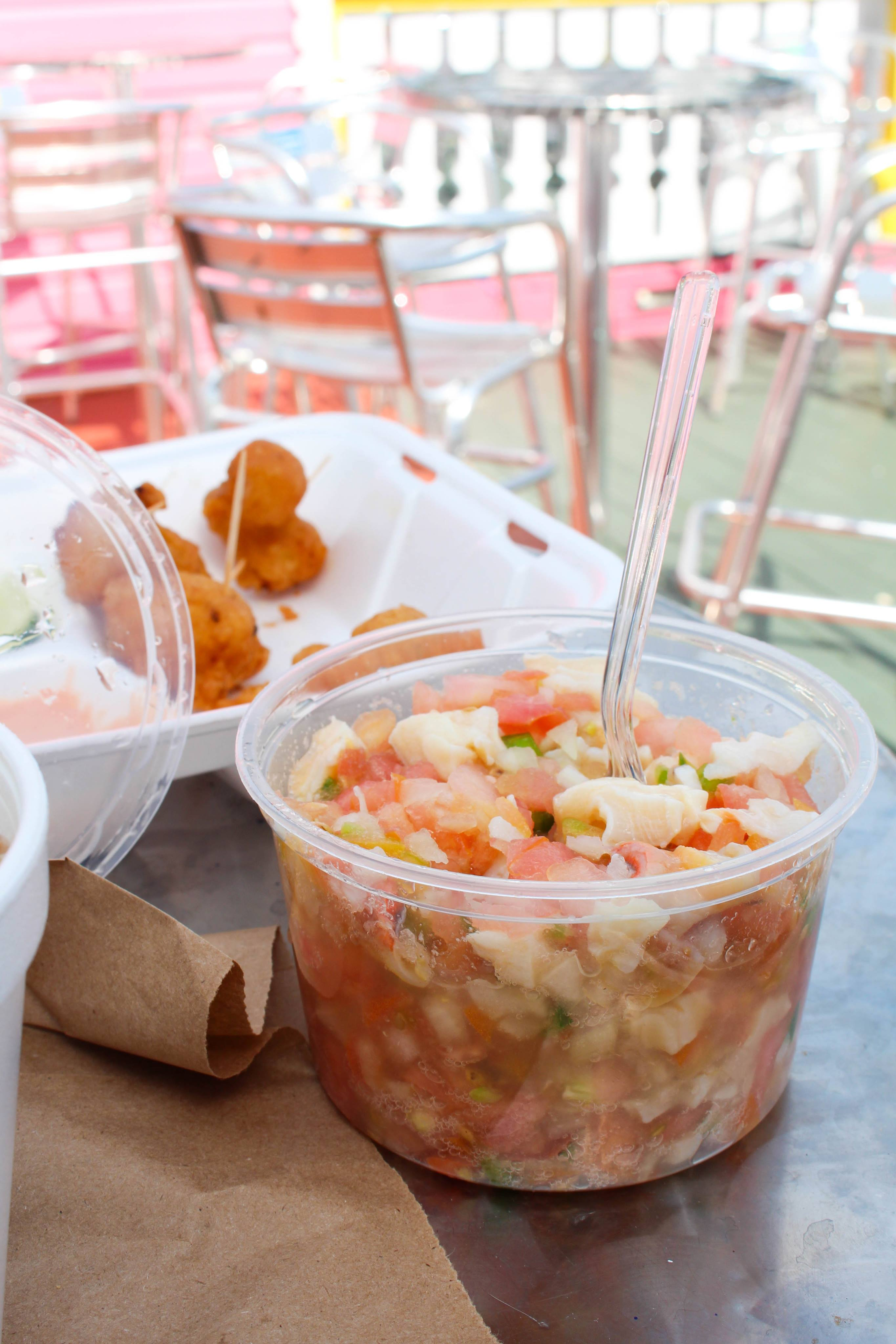 Conch dishes are conch fritters in the background and conch salad foreground.